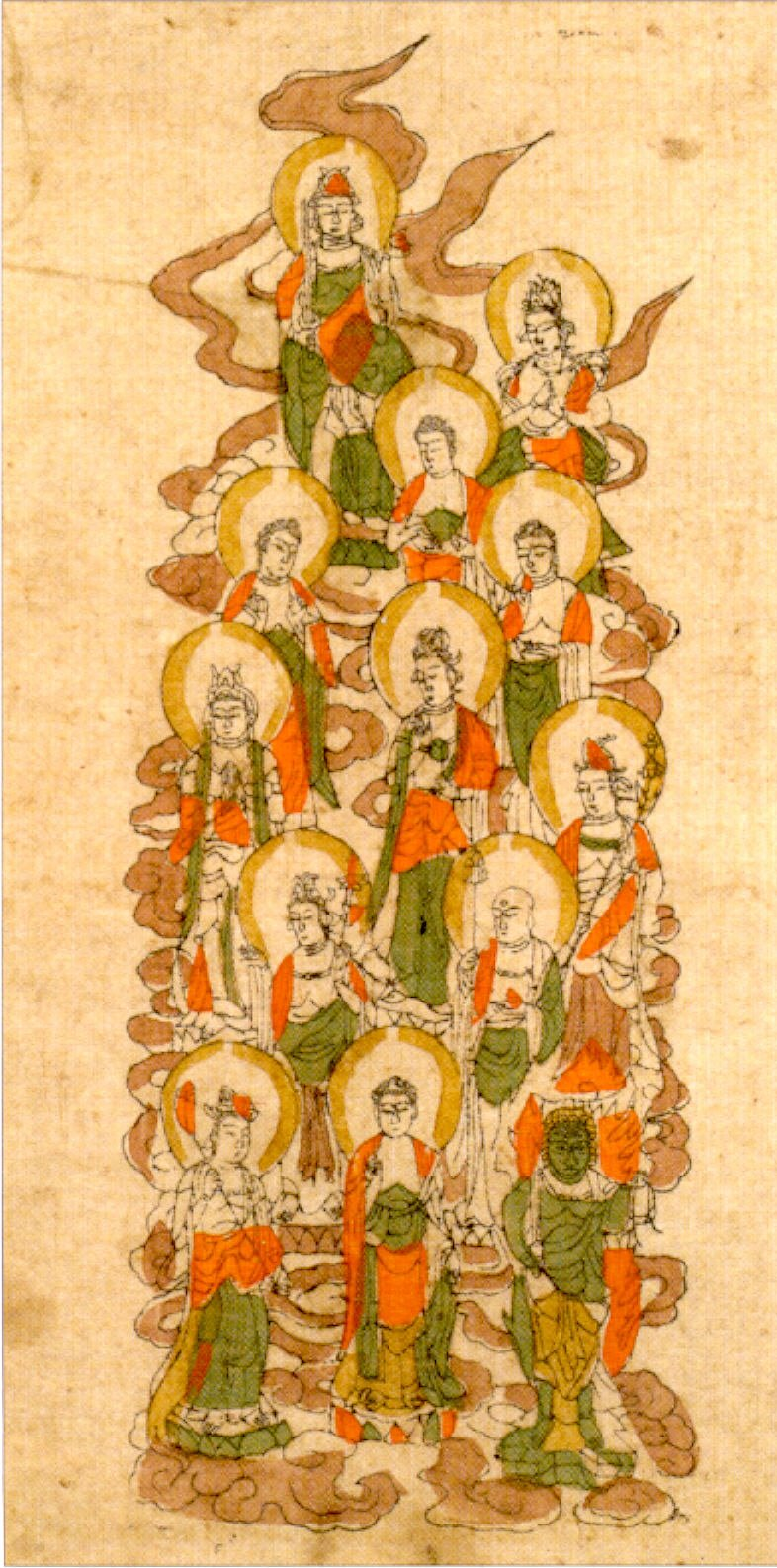 Jūsambutsu-Mandala (Mandala of the Thirteen Buddhas), Muromachi period Japan, hand colored woodblock print, Honolulu Academy of Arts